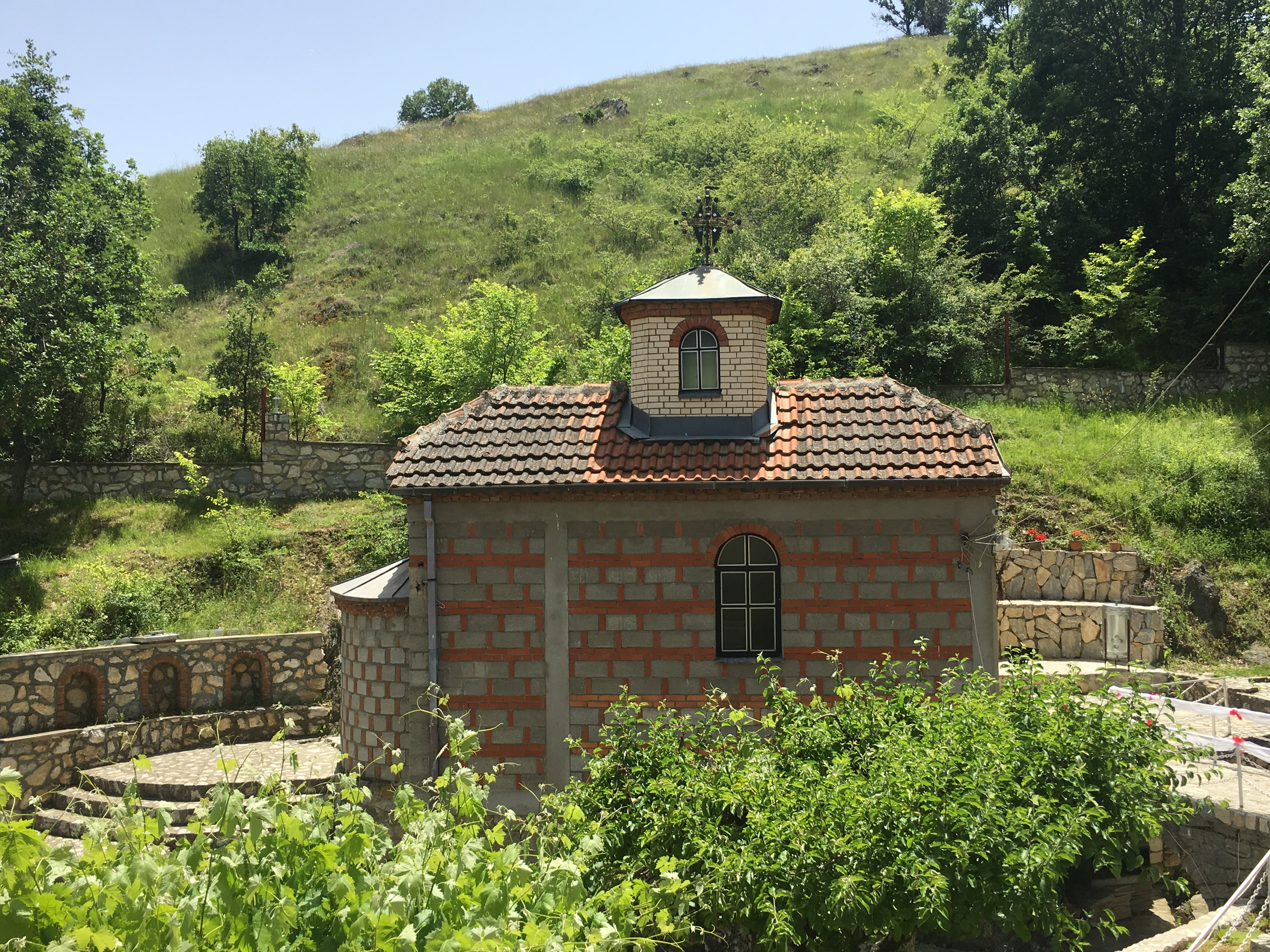 Sts. Cyril and Methodius Church of the Loznani Monastery